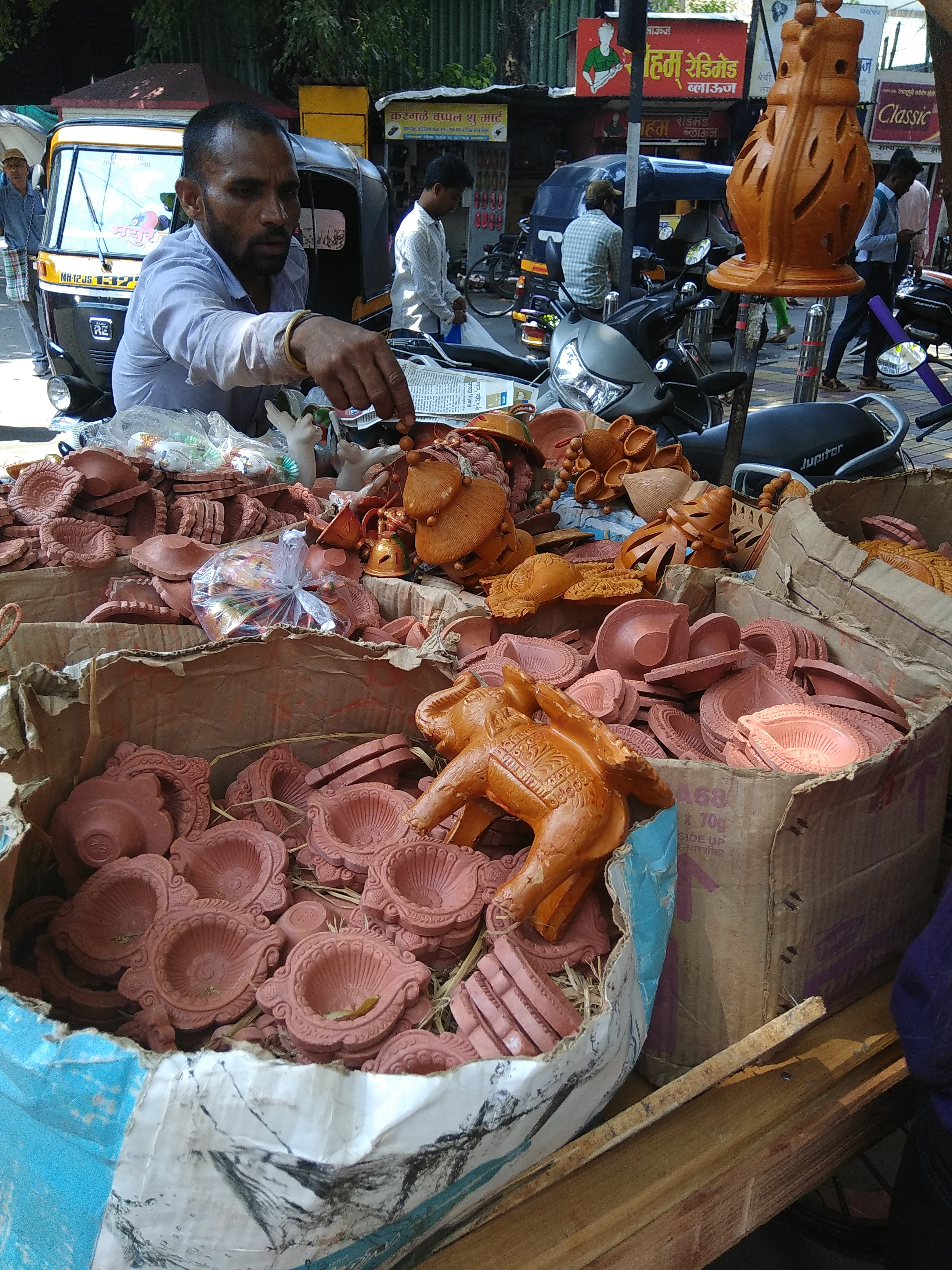 Oil lamps for Diwali